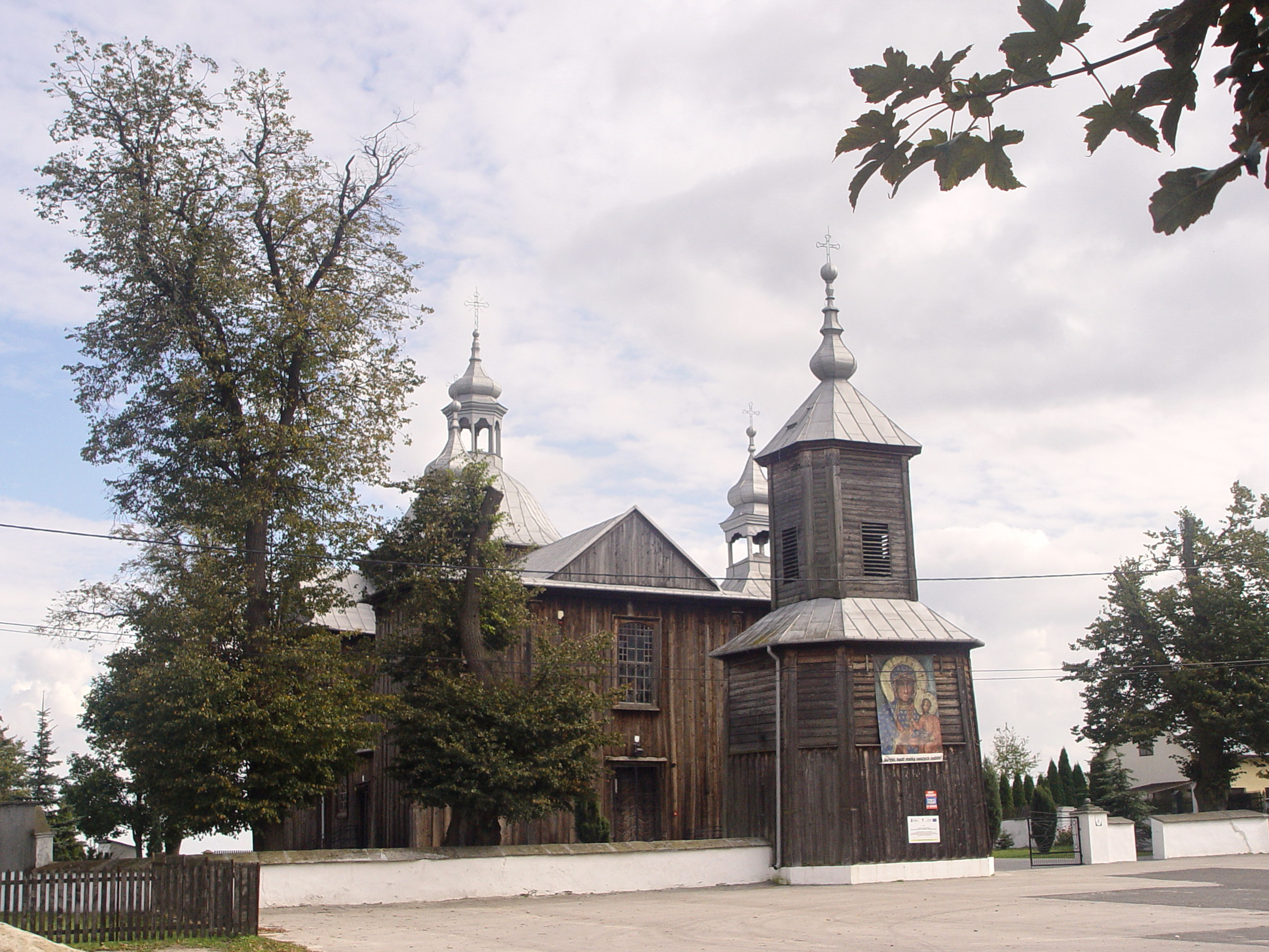 Mnichów - larch, a Baroque church. St. Stephen - a view from the west, the route E77 Warsaw-Krakow